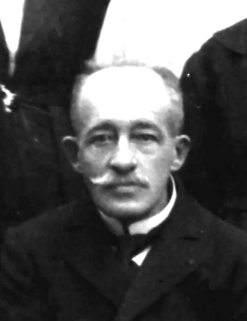 Bulgarian astronomer Marin Bachevarov, 1916.